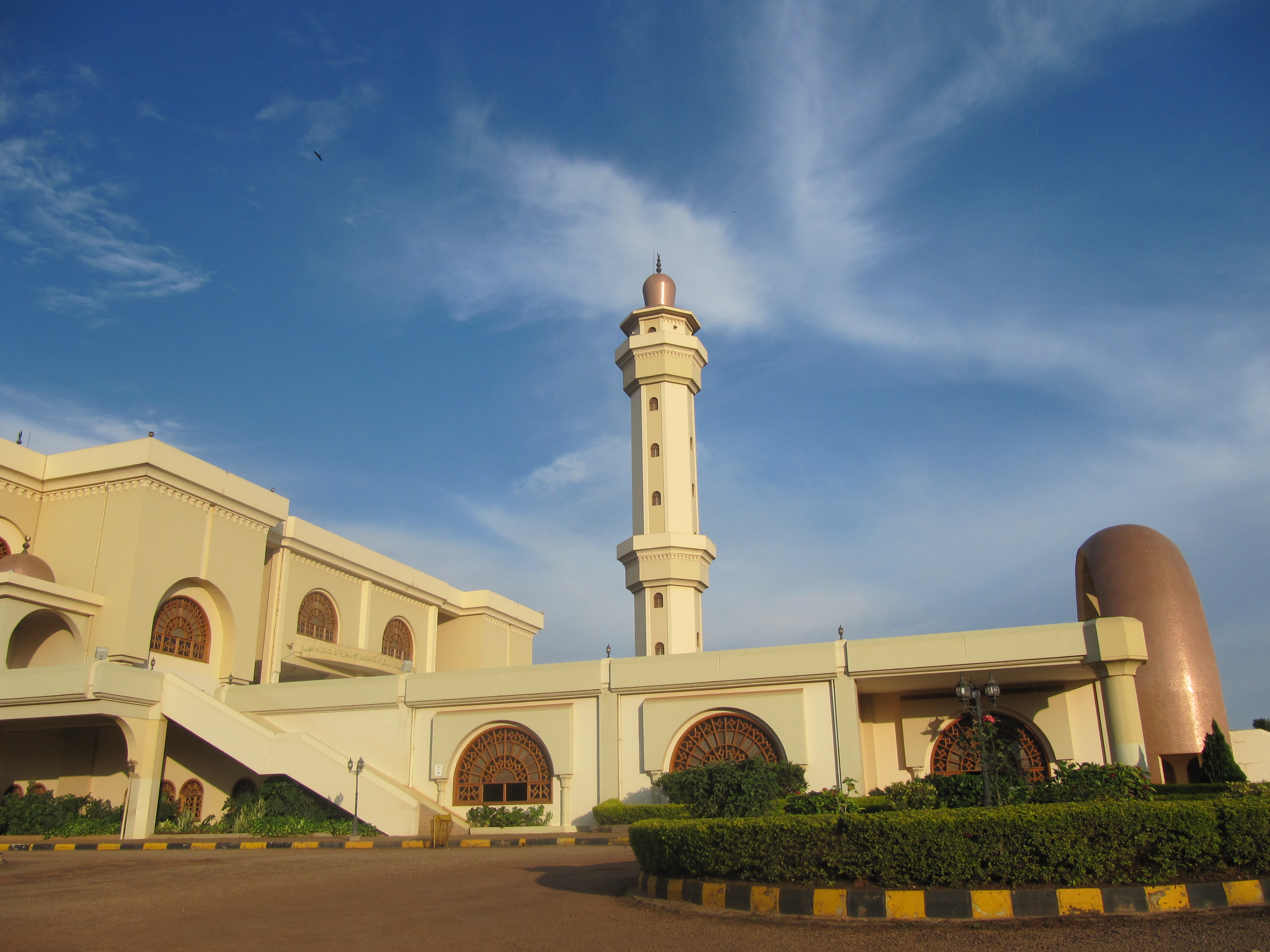 Idi Amin wanted to build the largest mosque in Africa but the never finished it. Gaddafi gave the money for it a couple of years ago.